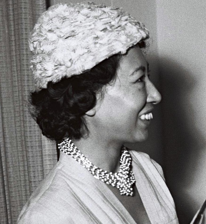 Michiko Inukai with Golda Meir in Israel